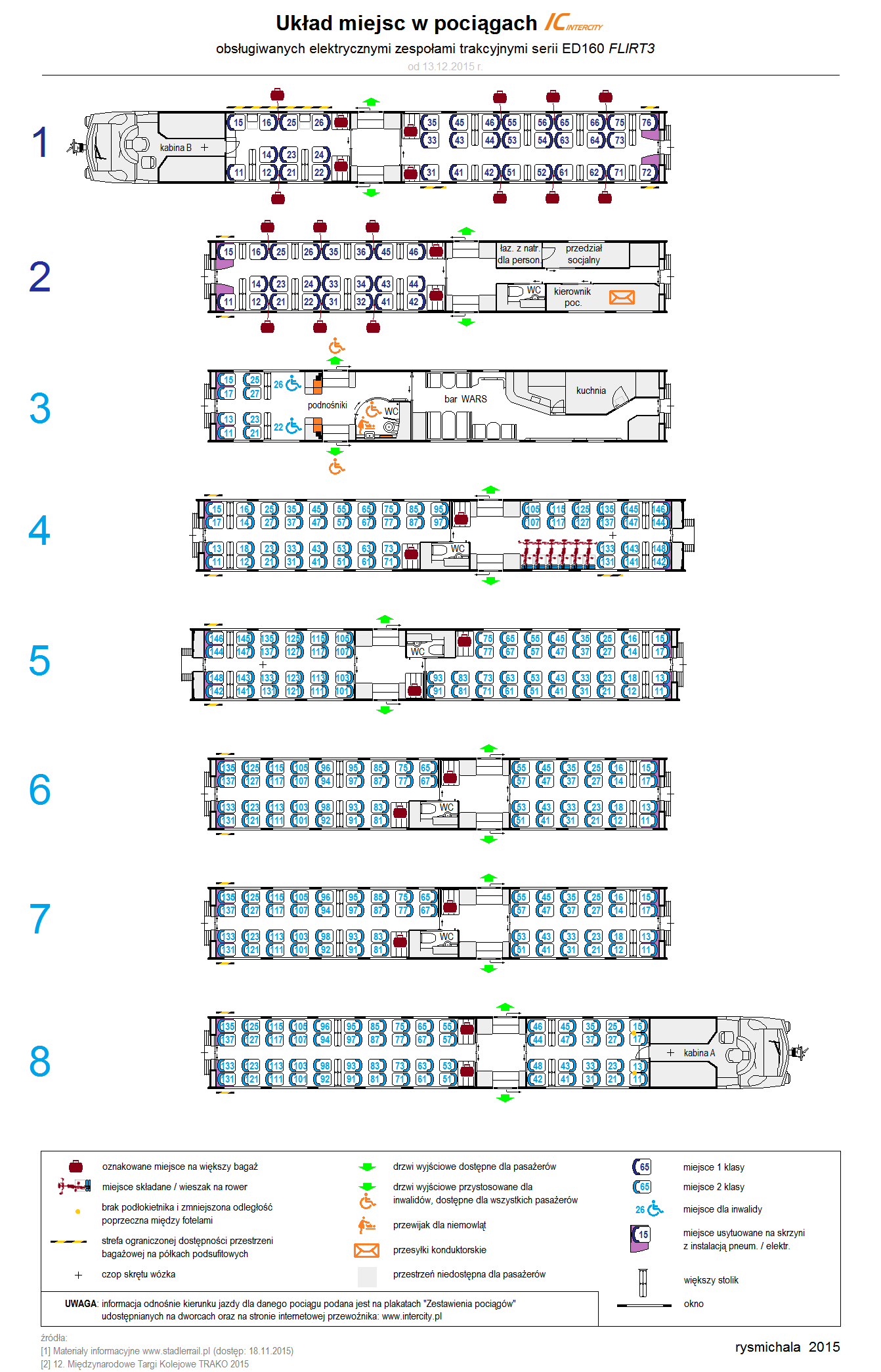 Seating plan of Polish EMU class ED160 (Stadler FLIRT3) used on domestic InterCity services since 13-12-2015.